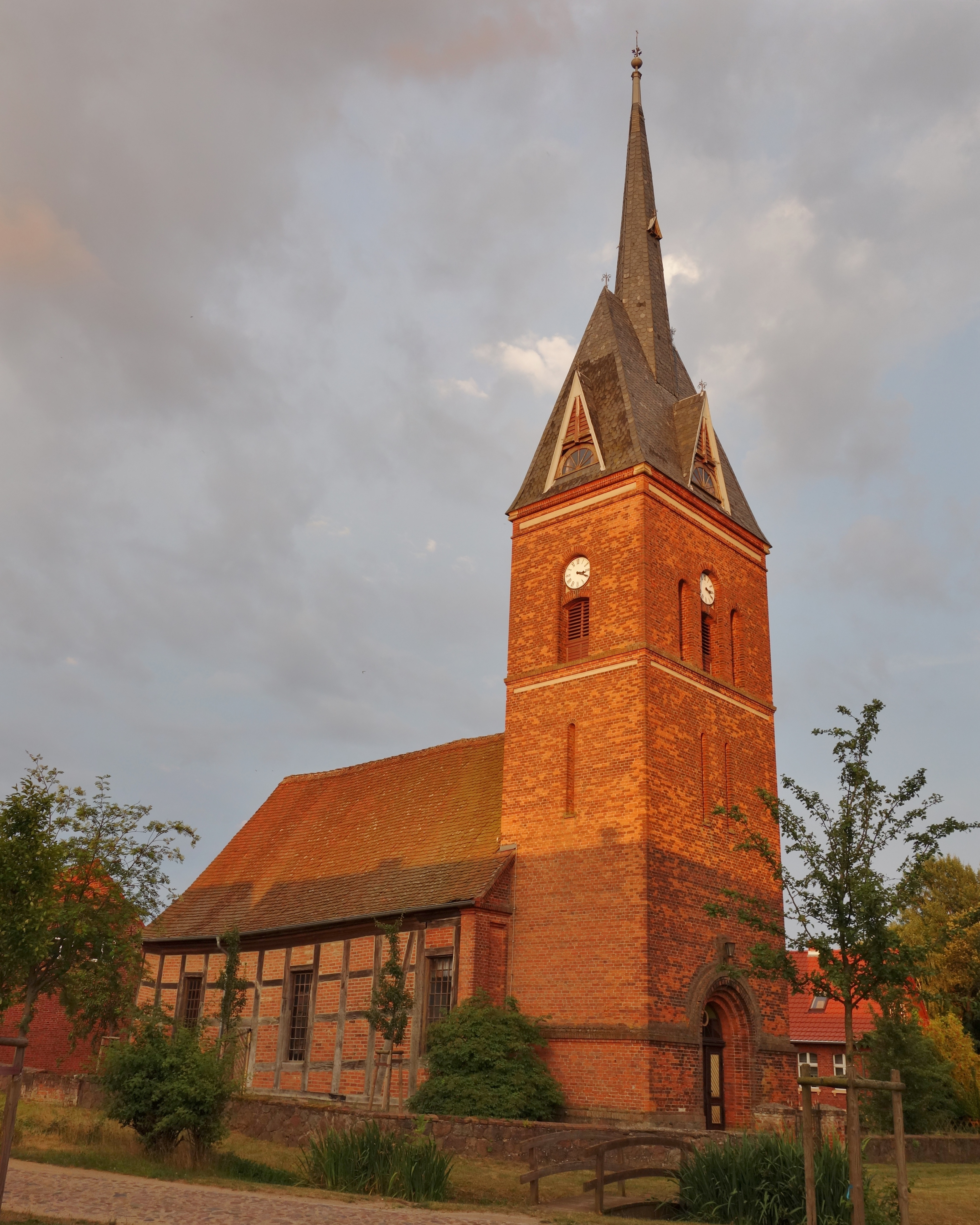 North-western view of church in Groß Woltersdorf, Groß Pankow municipality, Prignitz district, Brandenburg state, Germany